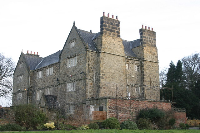 Denton Hall. Inscription on the porch "16AED22" refers to Anthony and Dorothy Errinton. The Hall is now the official residence of the Roman Catholic Bishop of Hexham and Newcastle.